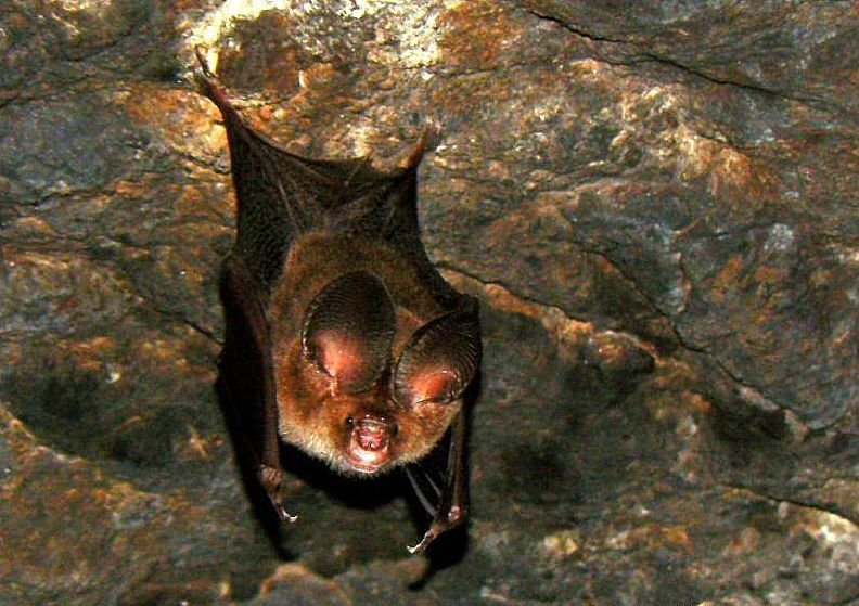 Location: Manpeshwar Cave Dahisar, Mumbai